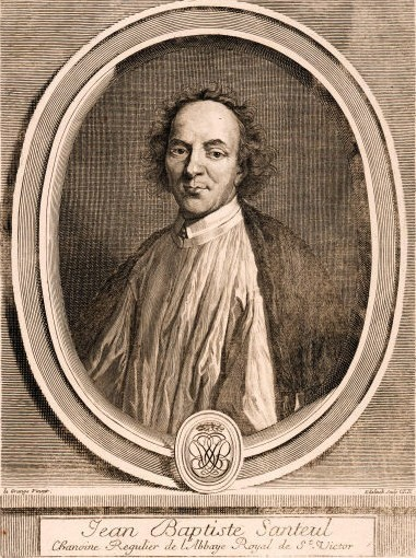 Portrait of French poet Jean de Santeul (aka Jean-Baptiste Santeuil Jean-Baptiste Santeul or Santolius) (1630-1697).